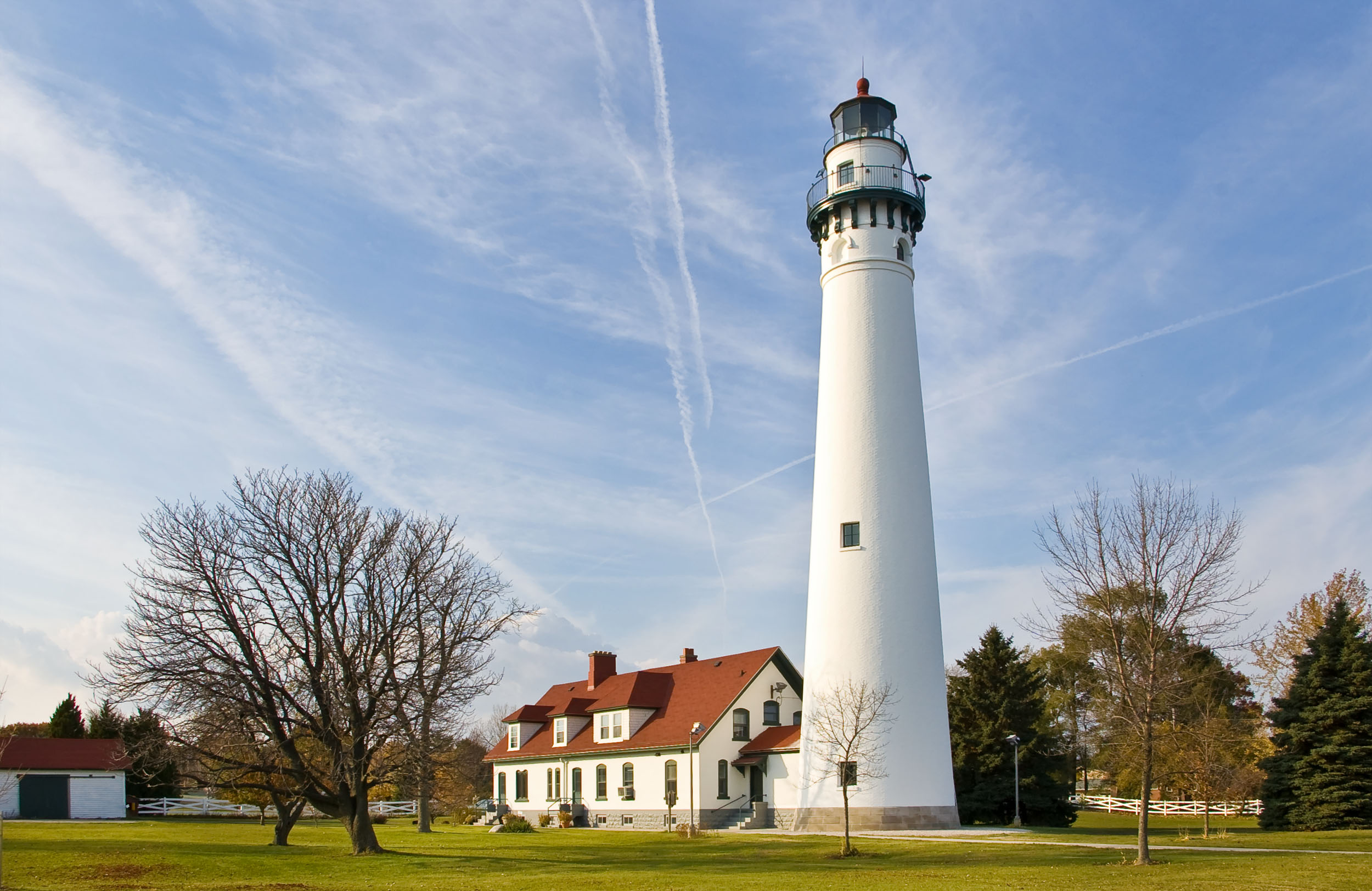 Wind Point Lighthouse, Wind Point, Wisconsin. Constructed on the shore of Lake Michigan in 1880.